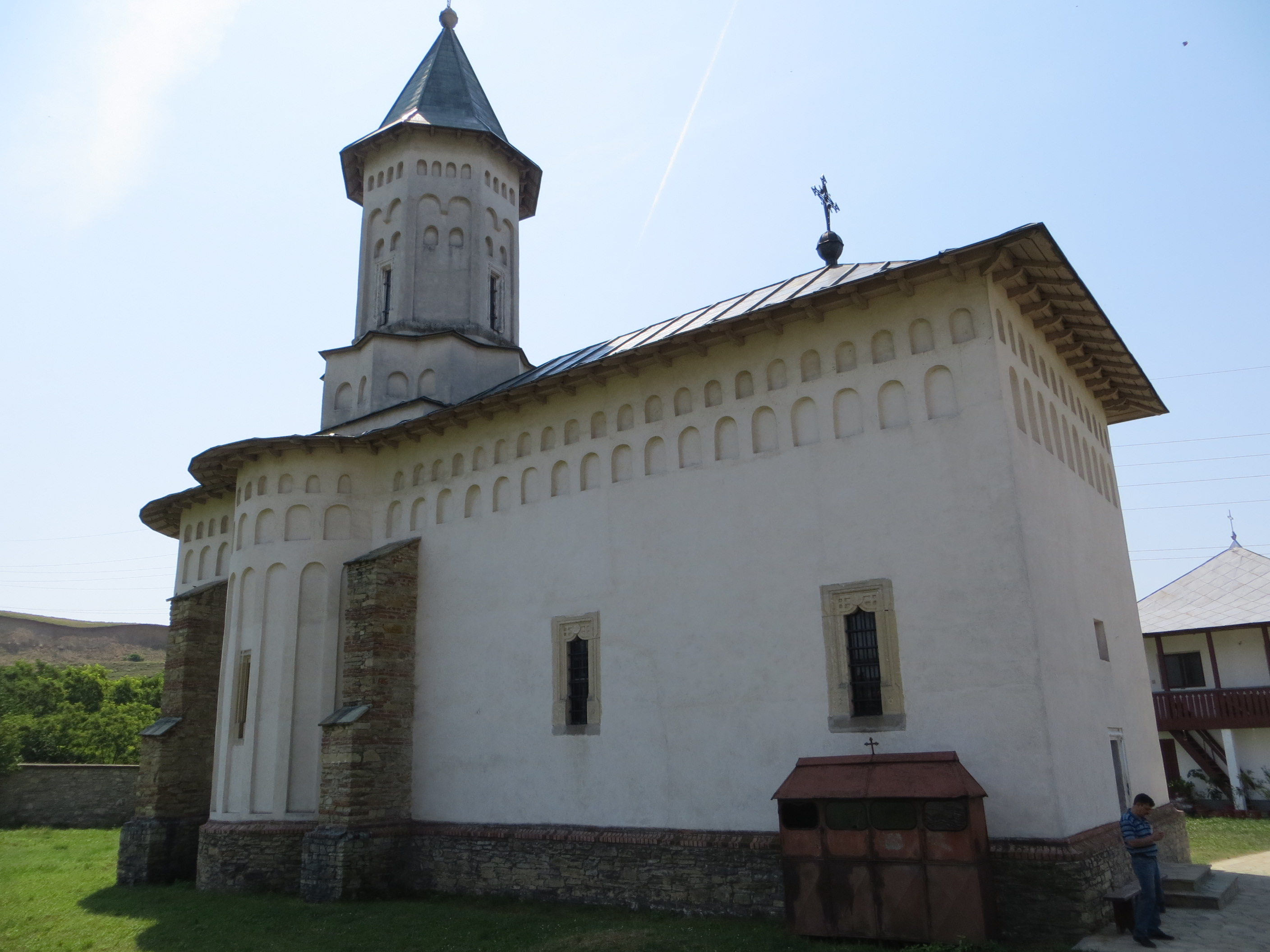 Teodoreni Monastery in Burdujeni, Suceava - Ascension Church.